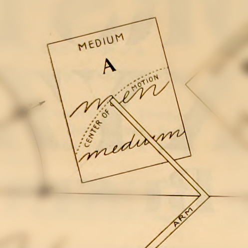 Detail from C. P. Zaner's 1896 penmanship article The Line of Direction in Writing which explores how the direction of movement can effect letter form in the muscular arm method of cursive writing.